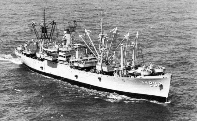 The U.S. Navy Andromeda-class attack cargo ship USS Yancey (AKA-93) underway in the Caribbean, in 1965.